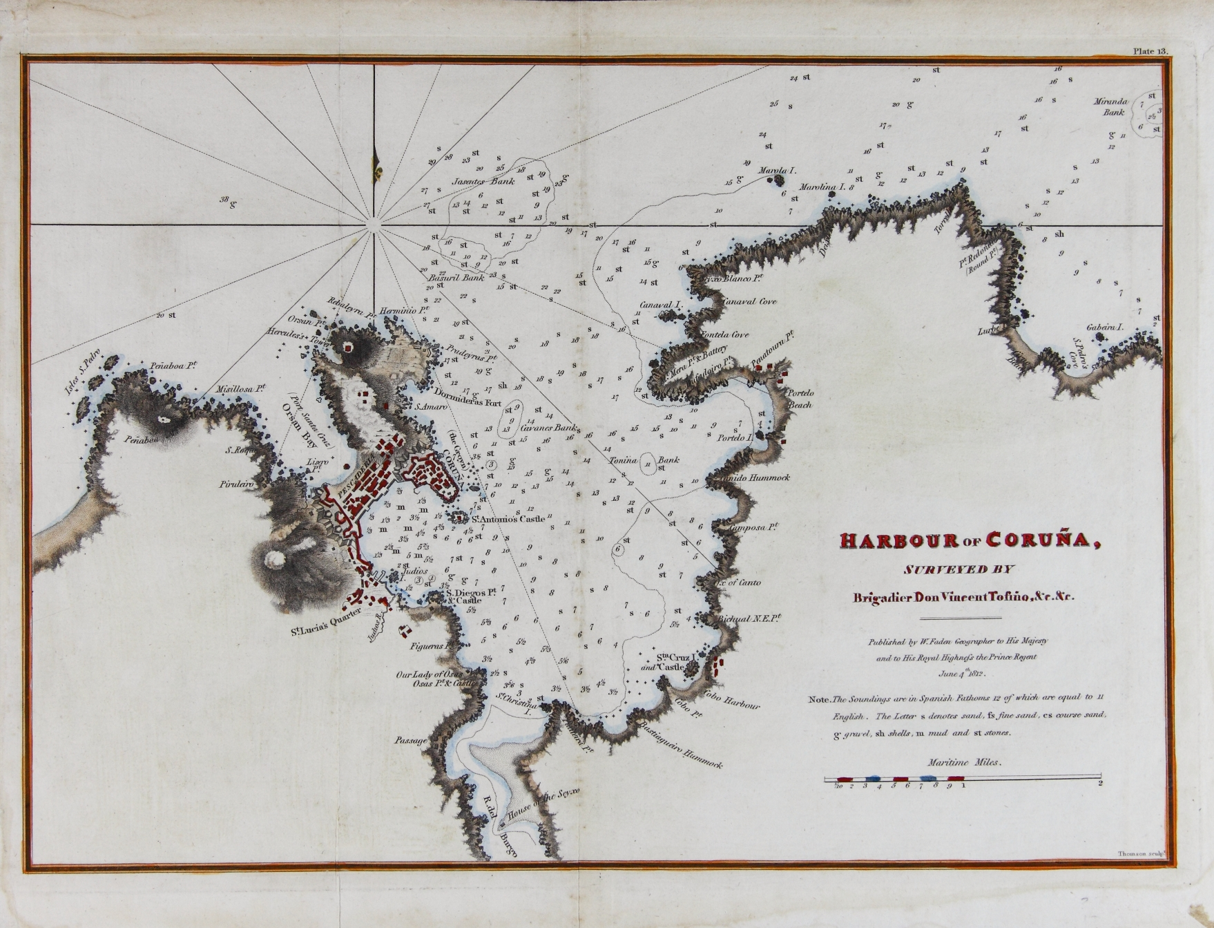 Harbour of Coruña (map, 1812).